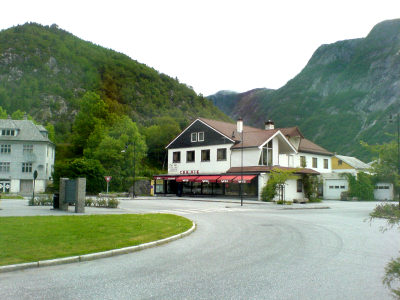 The village of Vadheim, Norway